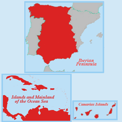 Crown of Castile Overseas at Treaty of Villafafila (1506) Ferdinand the Catholic renounces not only the government of Castile, but also the lordship of the Indies.